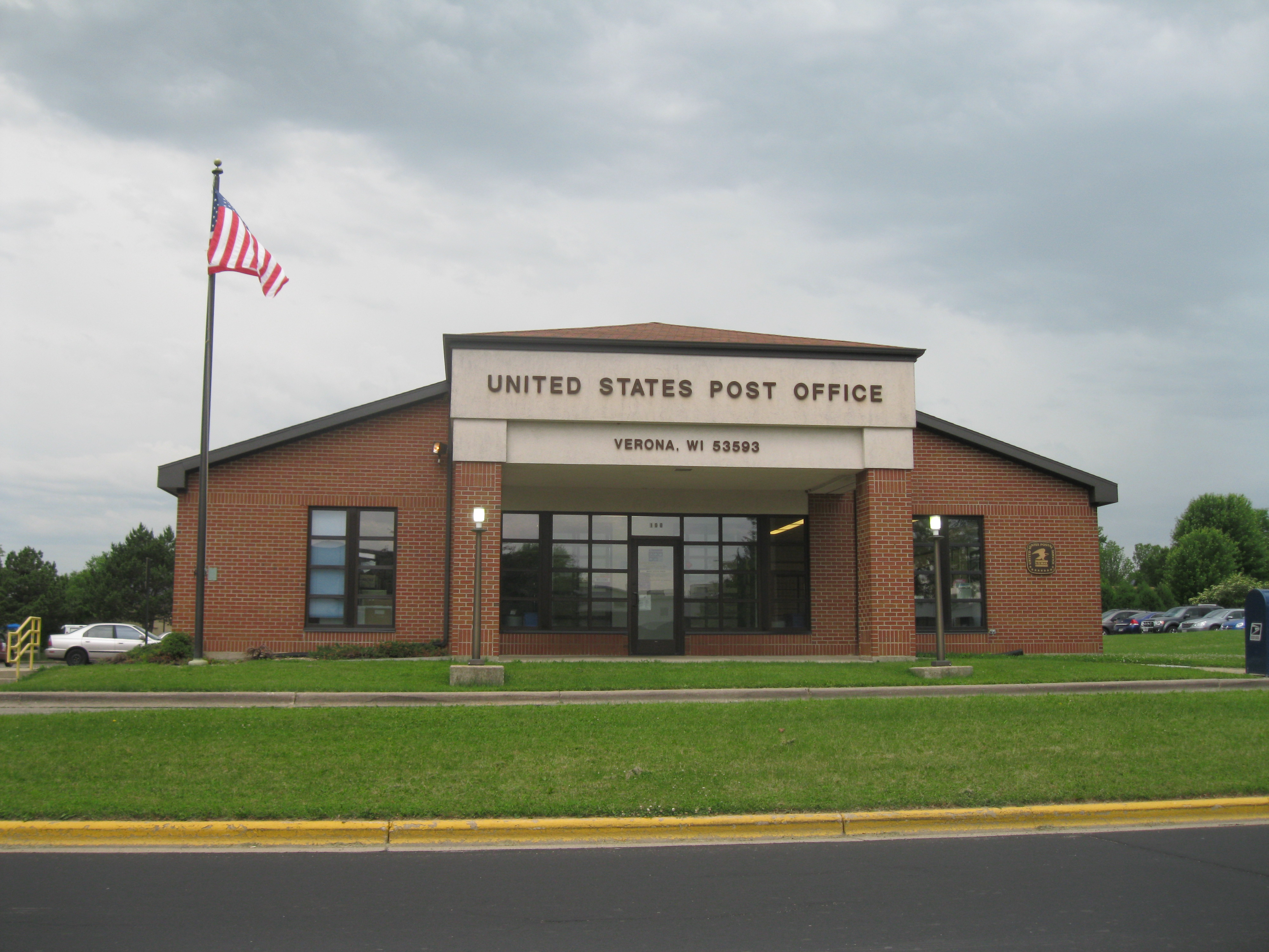 Post office in Verona, Wisconsin.